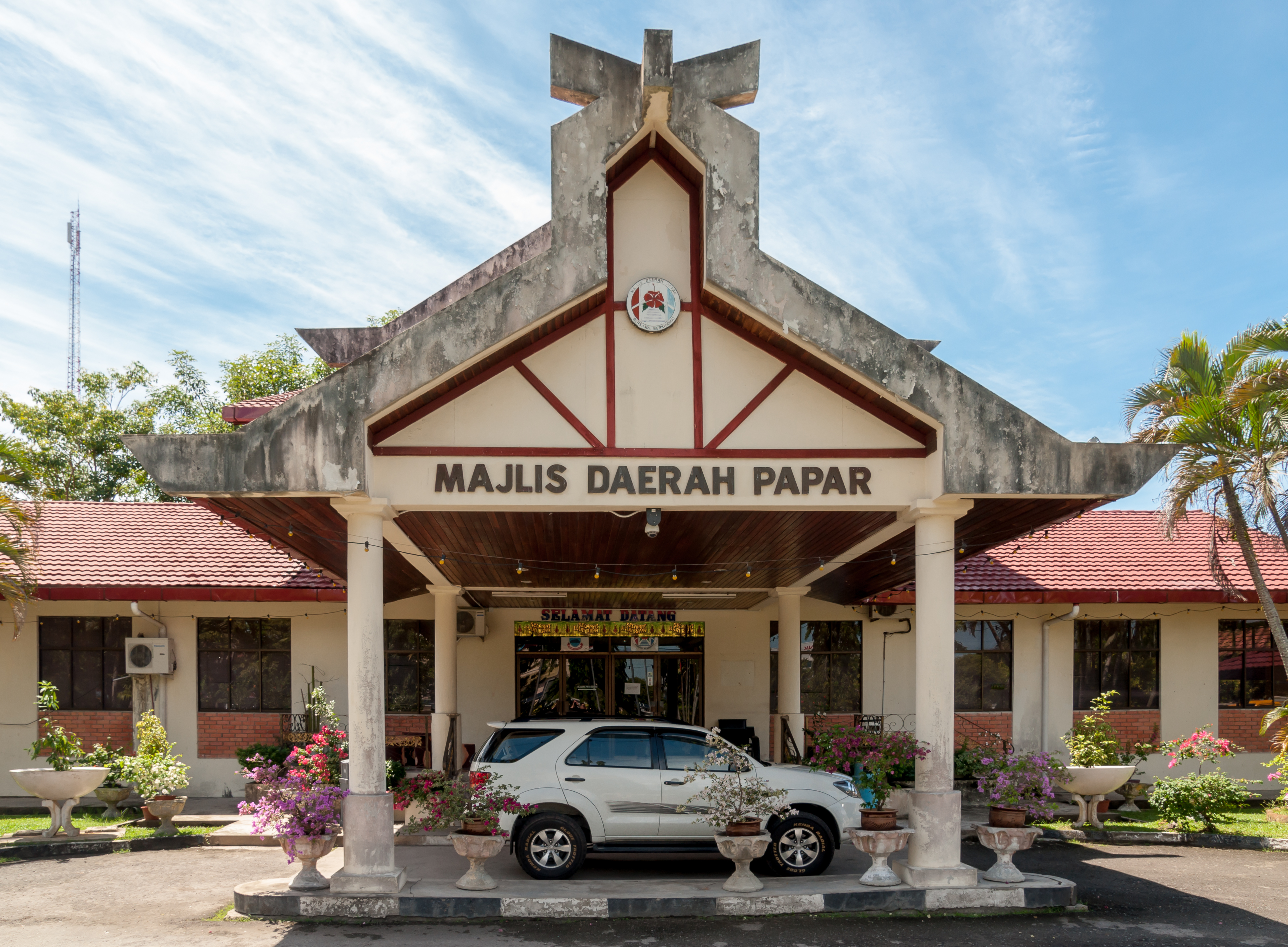 Papar, Sabah: District CouncilPapar / Majlis Daerah Papar